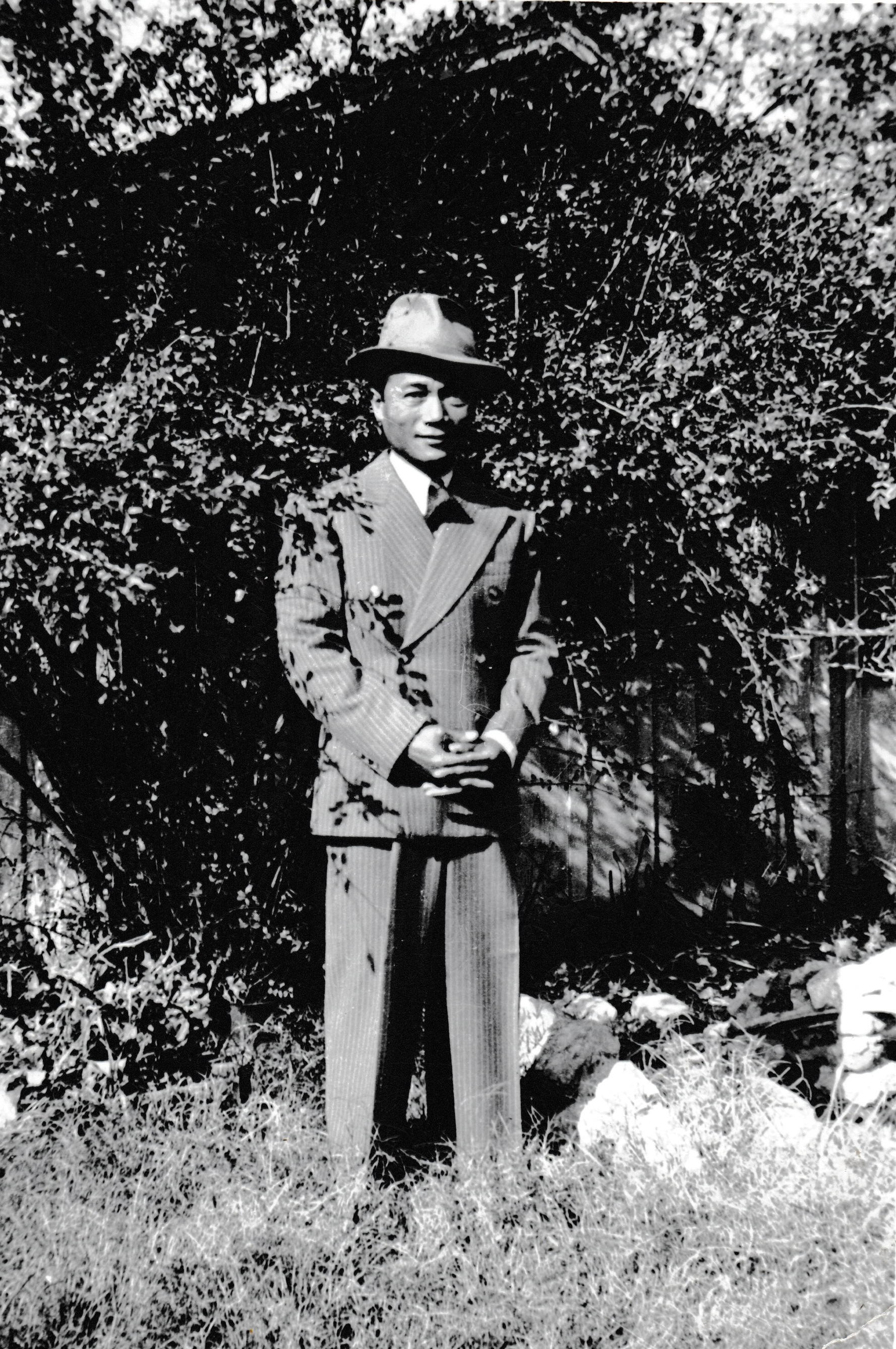 One of the only records of his life was a US census in 1940 where he and his family were declared as white. Just because it was only partially correct doesn't mean it wasn't true, but they obviously filled out the form and mailed it in or his white wife Myna talked to the census taker.